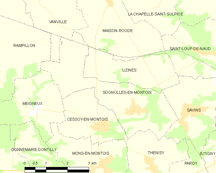 Map of French municipality Sognolles-en-Montois